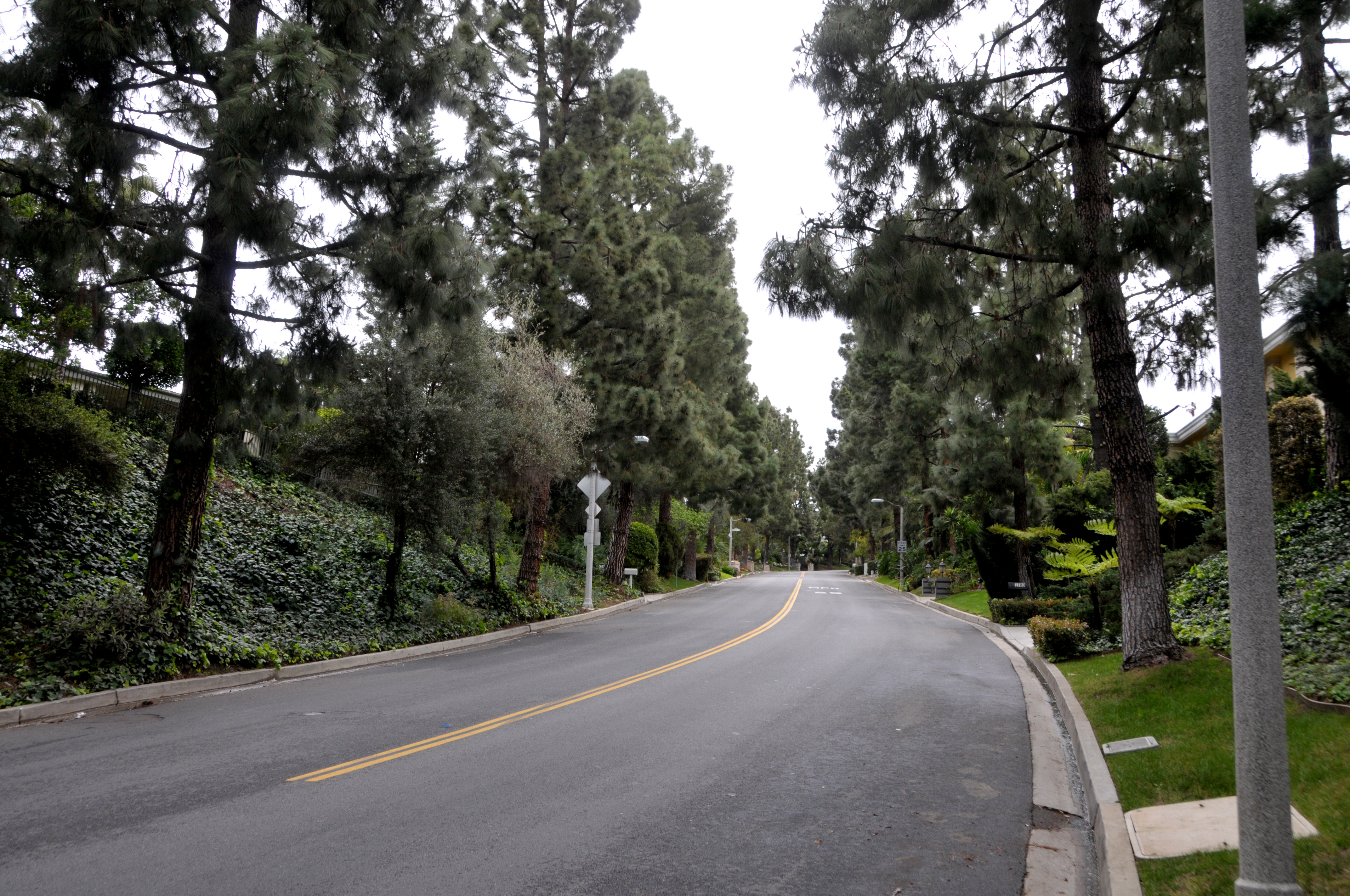 Trousdale Estates - Loma vista Drive looking North from Corner of Chalette Drive, Beverly Hills, California - Photo by Glenn Francis of